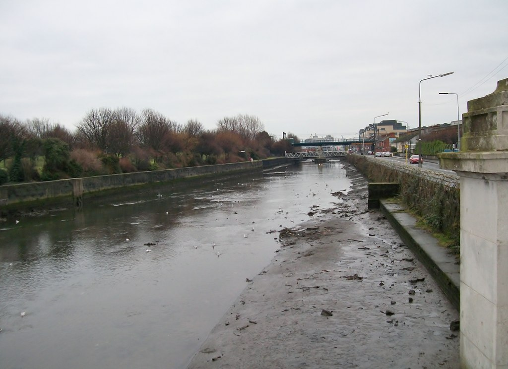 View of the Tolka River from the Annesley Bridge, East Wall, Dublin